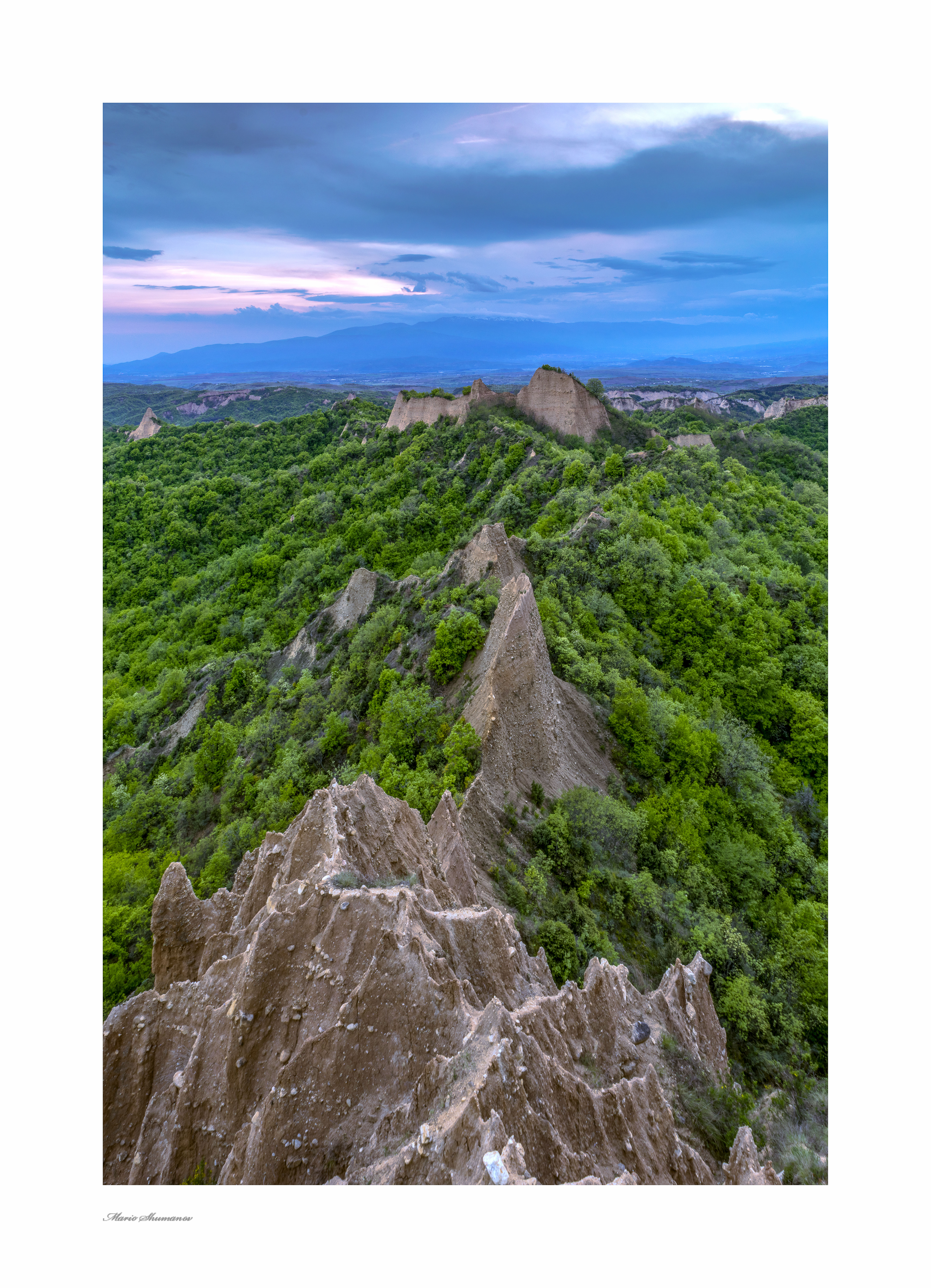 Melnik pyramids